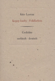 Book cover of Kito Lorenc "Fehlfarben" (2004)